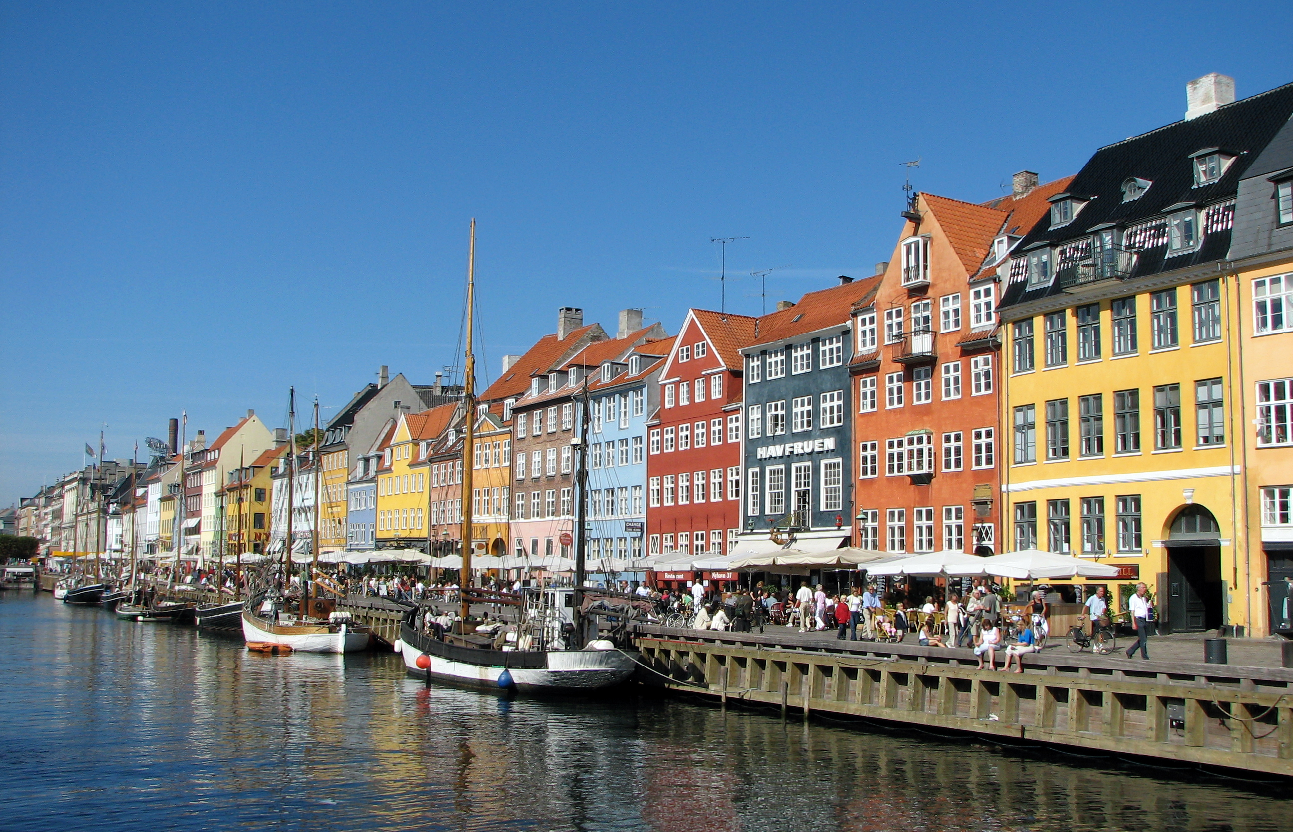 Nyhavn in Copenhagen, Denmark